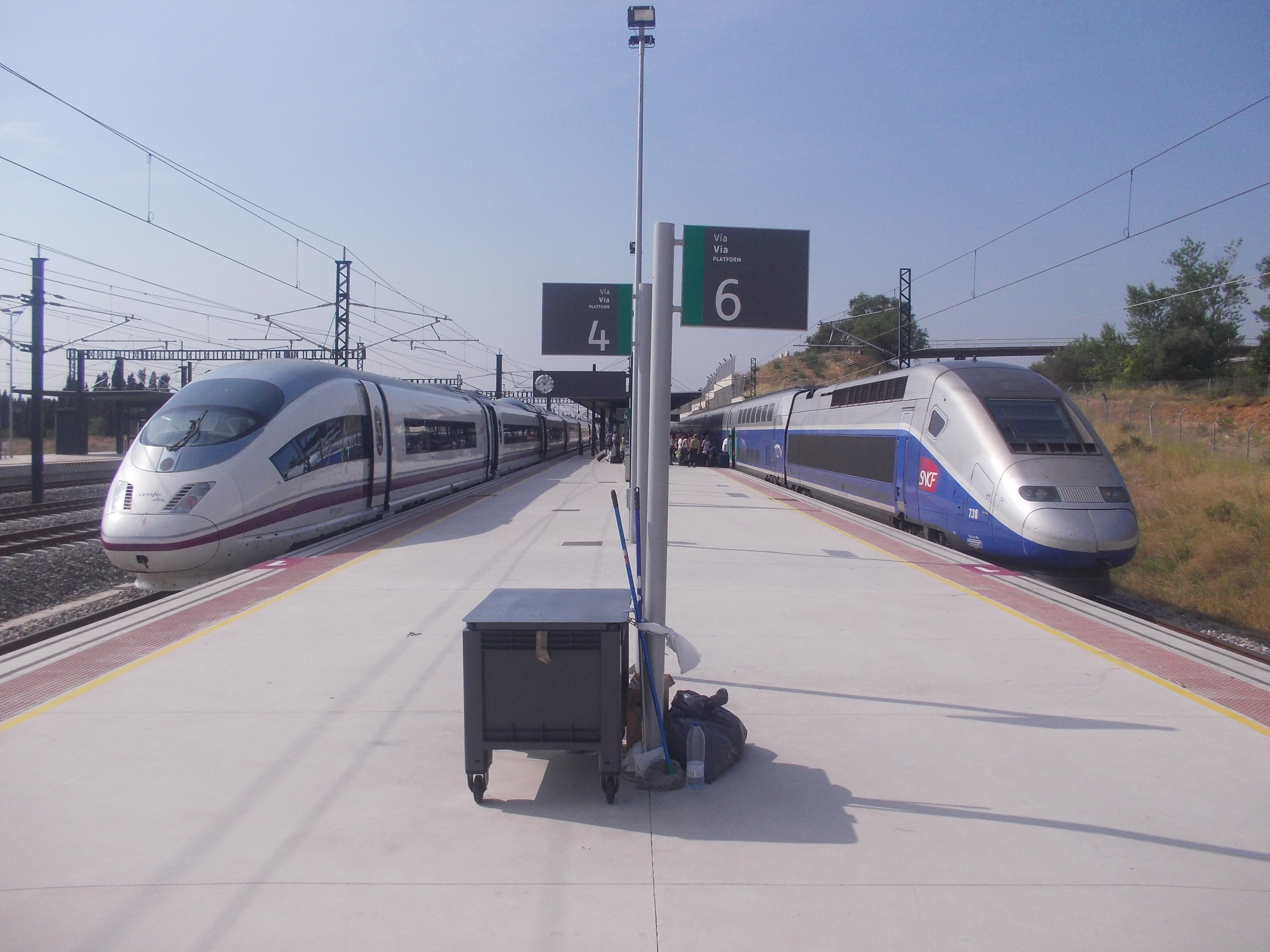 A AVE Class 103 (Siemens Velaro) from RENFE at terminus station Figueres Vilafant at the very north eastern part of Spain is exchanging international passengers to a SNCF TGV Duplex heading as far as Paris-Gare de Lyon.